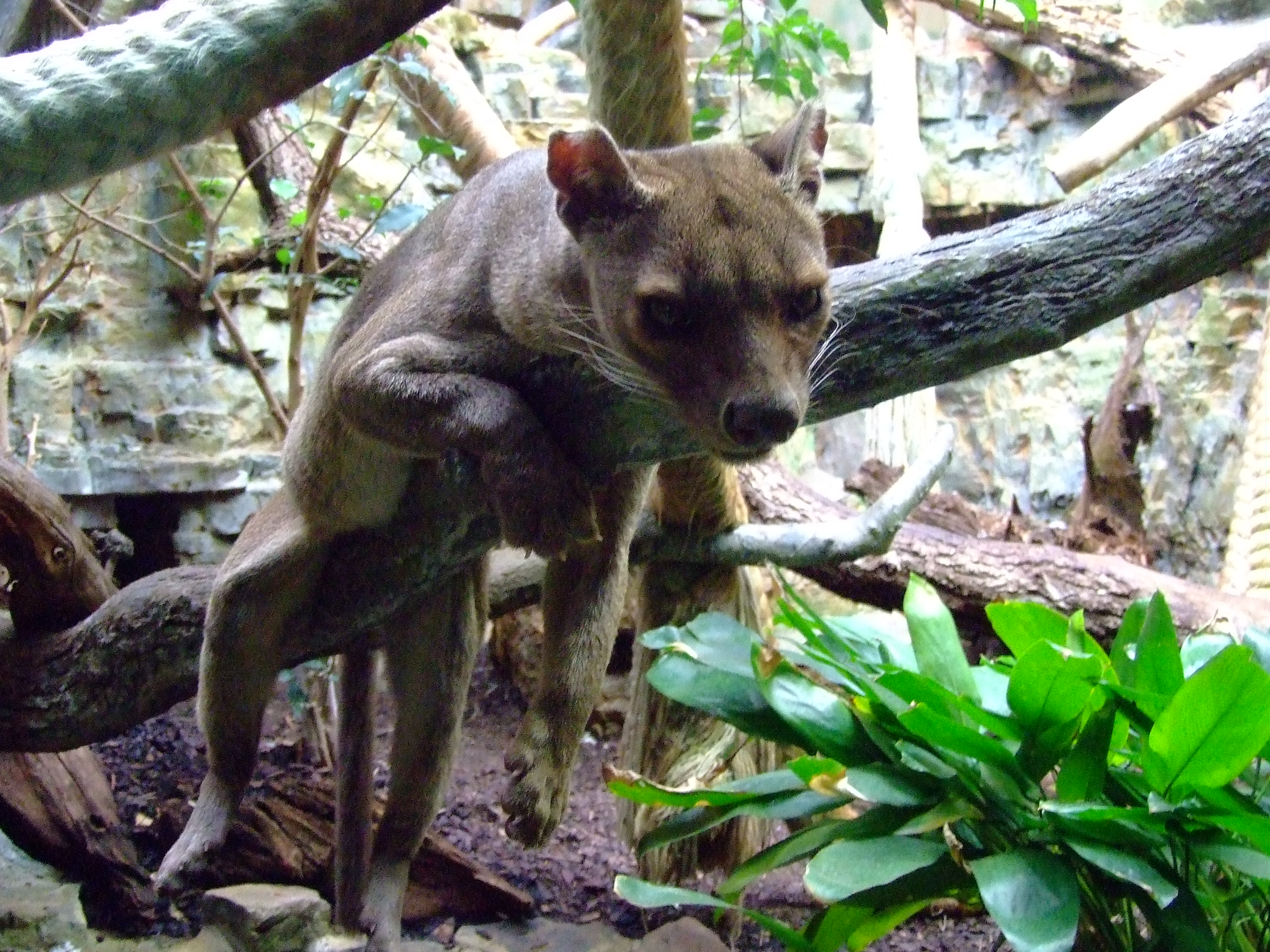 Fossa (Cryptoprocta ferox) im Zoo Frankfurt